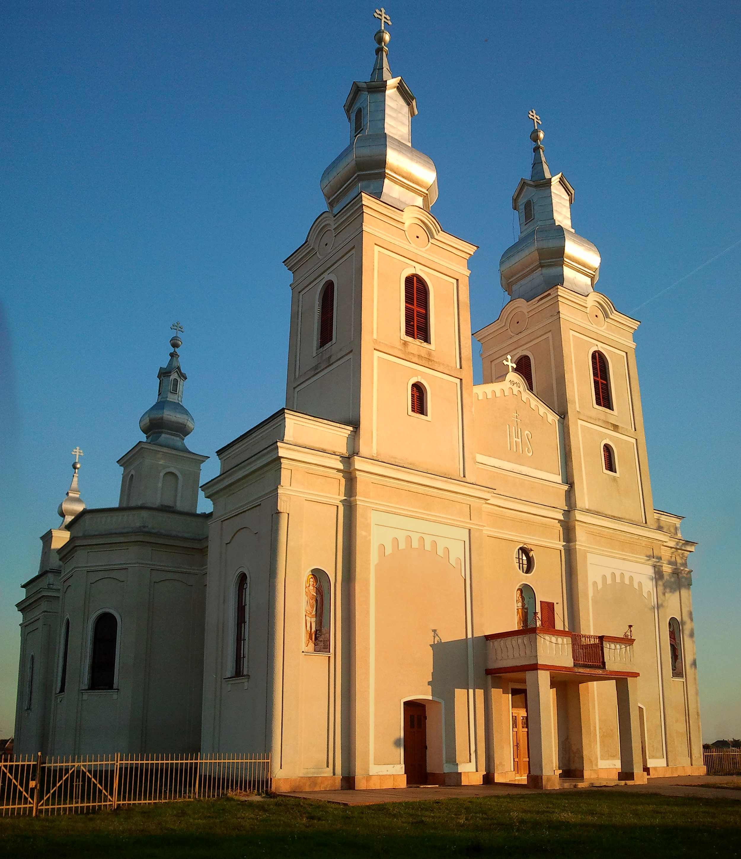 "St. Archangels Michael and Gabriel" Orthodox Church, Sanislau, Satu Mare county, RomaniaRomână: Biserica Ortodoxă "Sf. Arhangheli Mihail și Gavriil", Sanislău, jud. Satu Mare